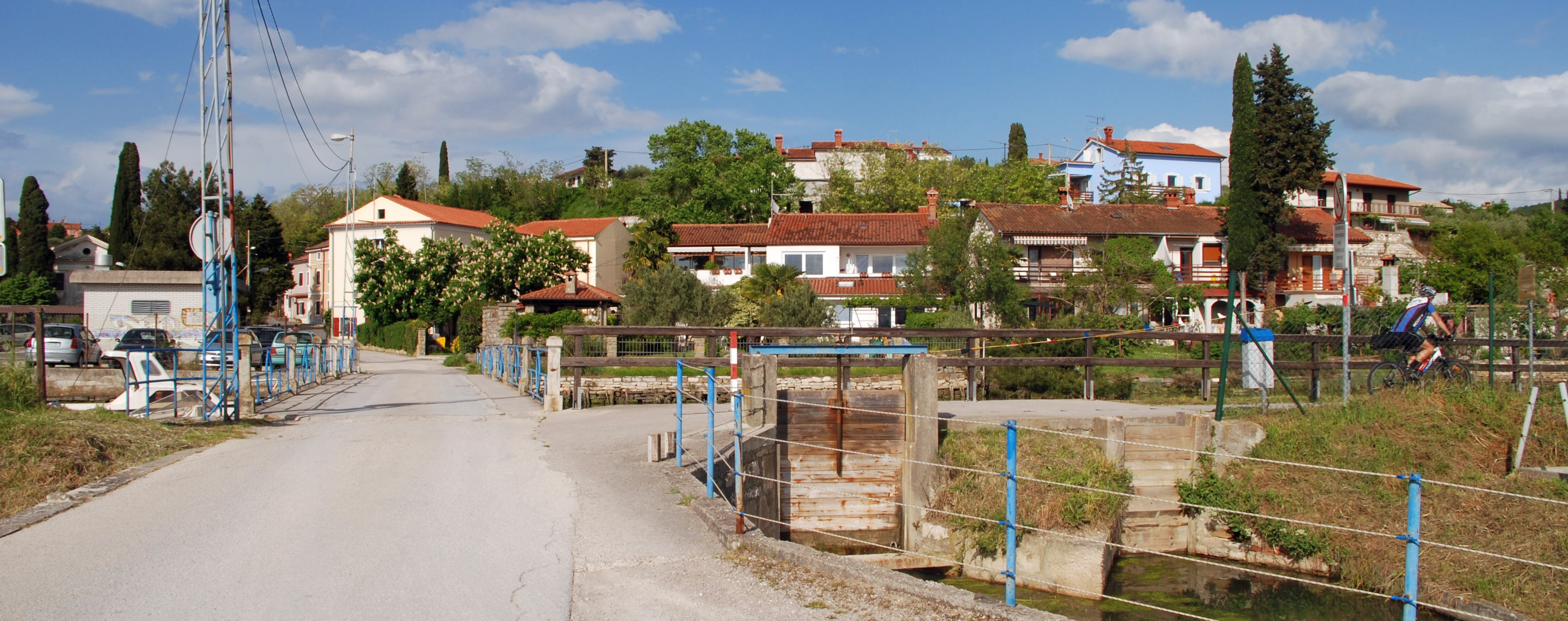 Seča, a village in the Municipality of Piran, southwestern Slovenia.